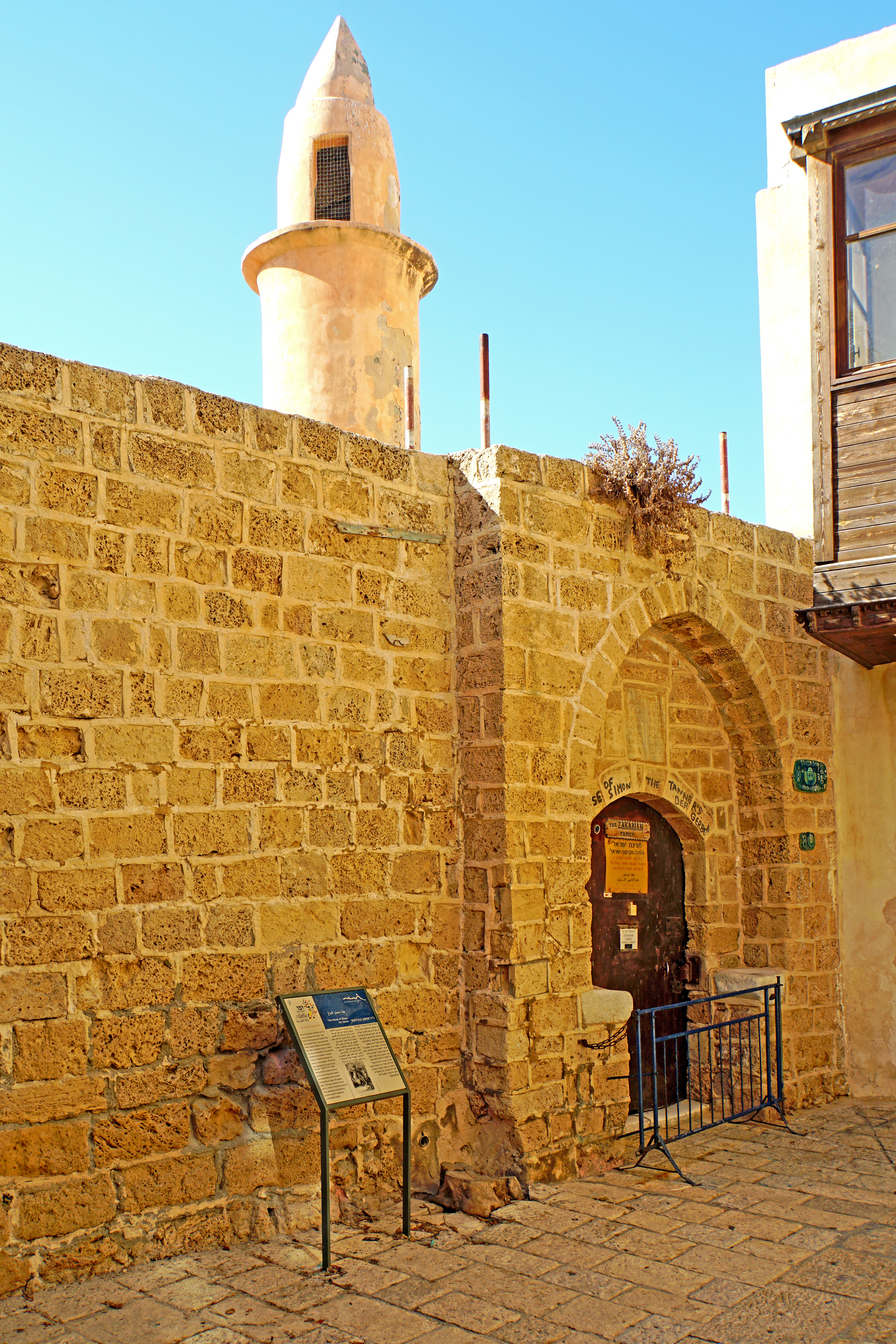 Home of Simon the Tanner a site sacred to Christianity. According to tradition, Simon the Tanner hosted the Apostle Peter during his travels in the Land of Israel. The New Testament says Peter performed a miracle in Jaffa – the resurrection of Tabitha, a woman known for her virtue, with the words "Tabitha, rise". This miracle increased the number of adherents to Christianity. Peter had a dream, he saw clean and unclean animals together. A heavenly voice told him to eat of the animals, and when he refused to eat unclean animals, the voice told him: “What God has made clean, do not call common.” Peter interpreted the dream as divine sanction to spread Christianity not only among Jews but also among the pagan Romans, and he agreed to convert Cornelius, a Roman centurion in Caesarea. This marked a historical turning point in the process of transforming Christianity into a universal religion.